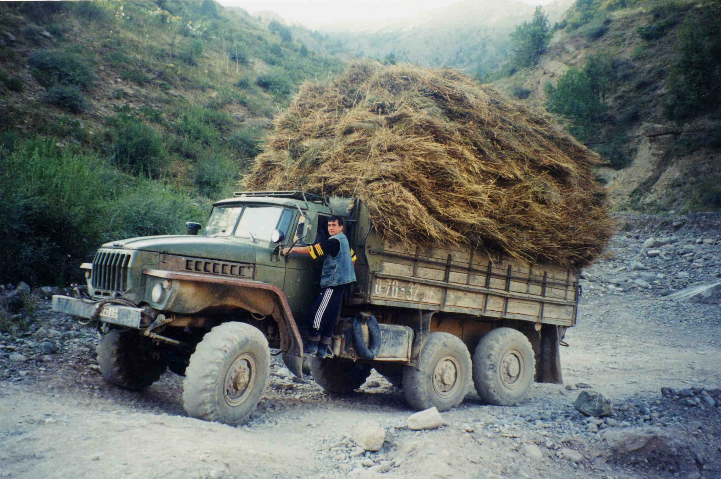 As dusk draws in, grass cutters in their Ural-4320 truck return down the mountain to the village after a successful day harvesting grasses for their goats, sheep, and cattle during the encroaching winter.